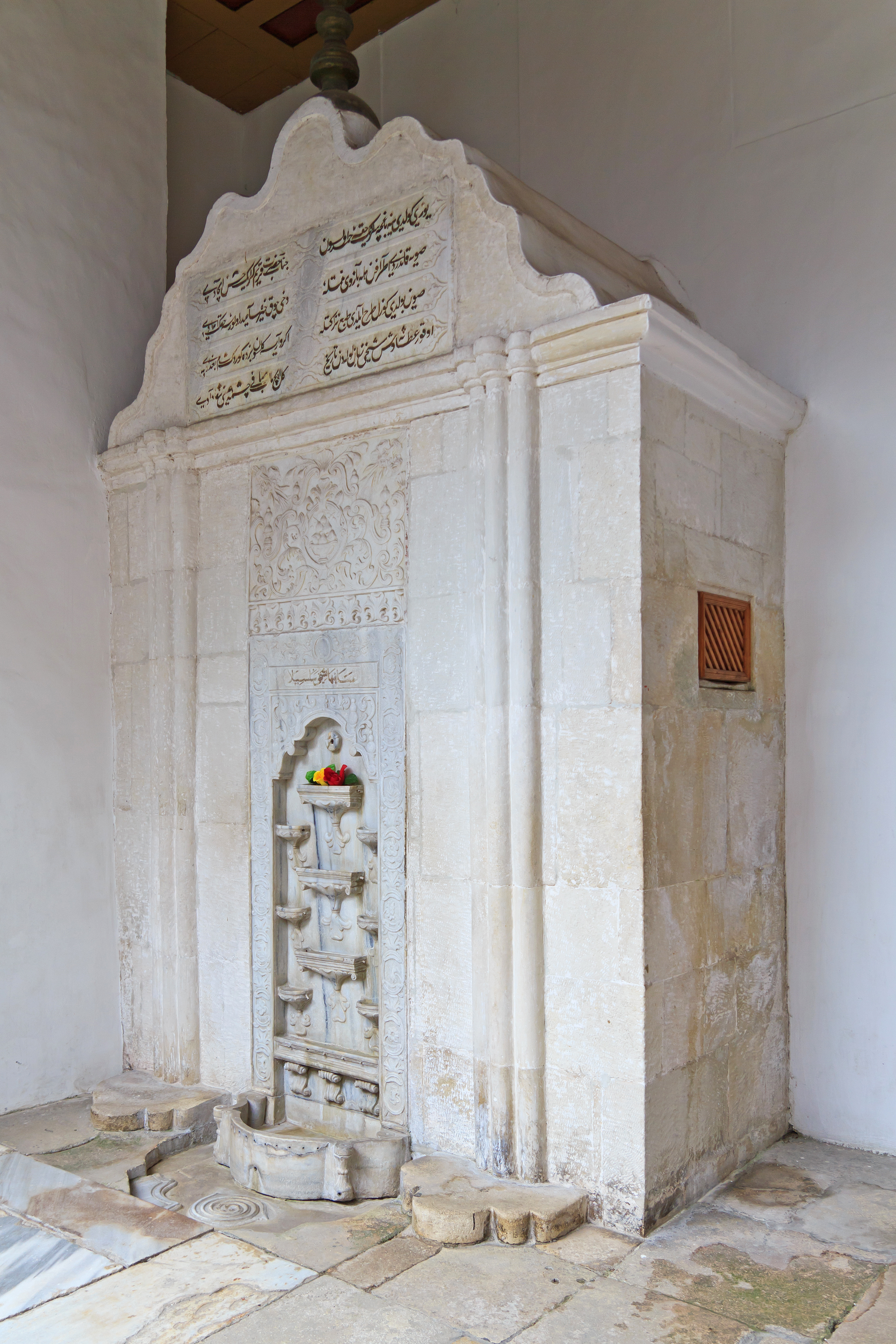 The Fountain of Tears inside the Khan's Palace (Hansaray) in Bakhchisaray, Crimean Peninsula.